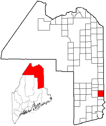 Adapted from U.S. Census Bureau maps (American FactFinder) and Wikipedia's ME county maps by Bumm13.